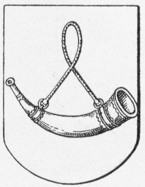 Coat of arms of Horns Herred (Hundred) (Jutland), a former administrative subdivision of Denmark, 1610 version. Illustration from the article Om danske By- og Herredsvaaben written by Anders Thiset and published in Tidsskrift for Kunstindustri 1893-1894.